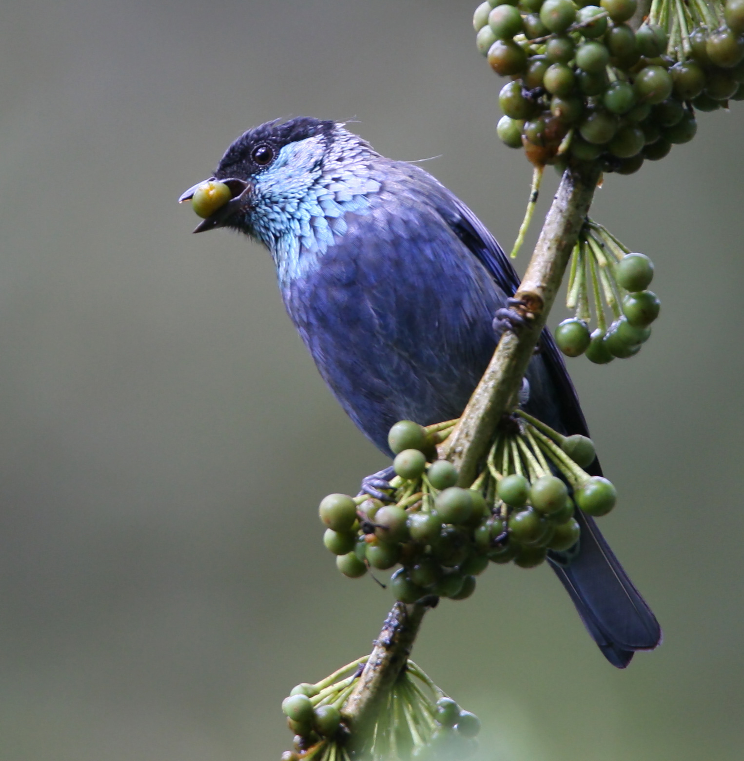 Black-capped tanager (Tangara heinei), Tandayapa Valley, NW Ecuador